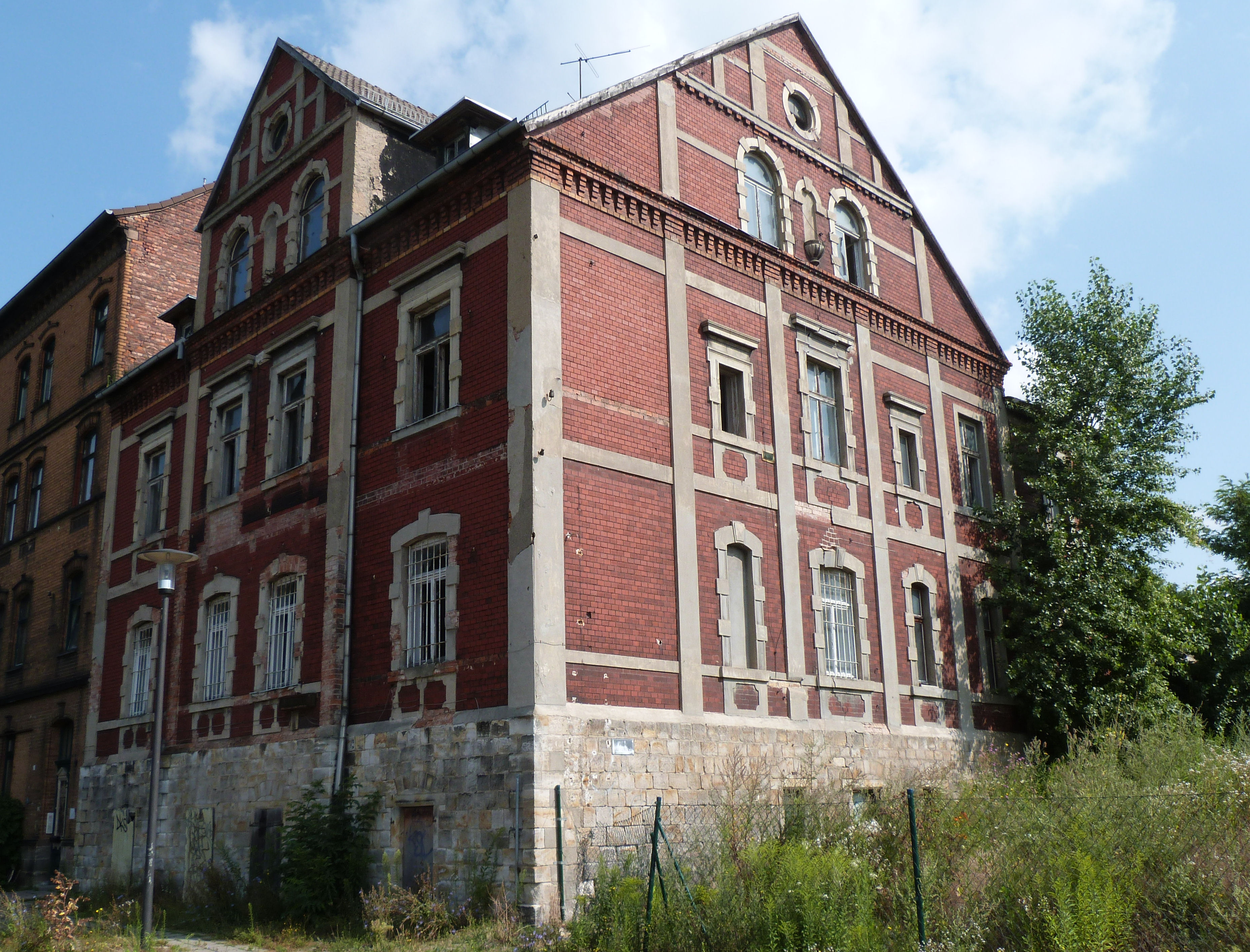 House No. 9, Am Mühlberg, Weissenfels, Saxony-Anhalt